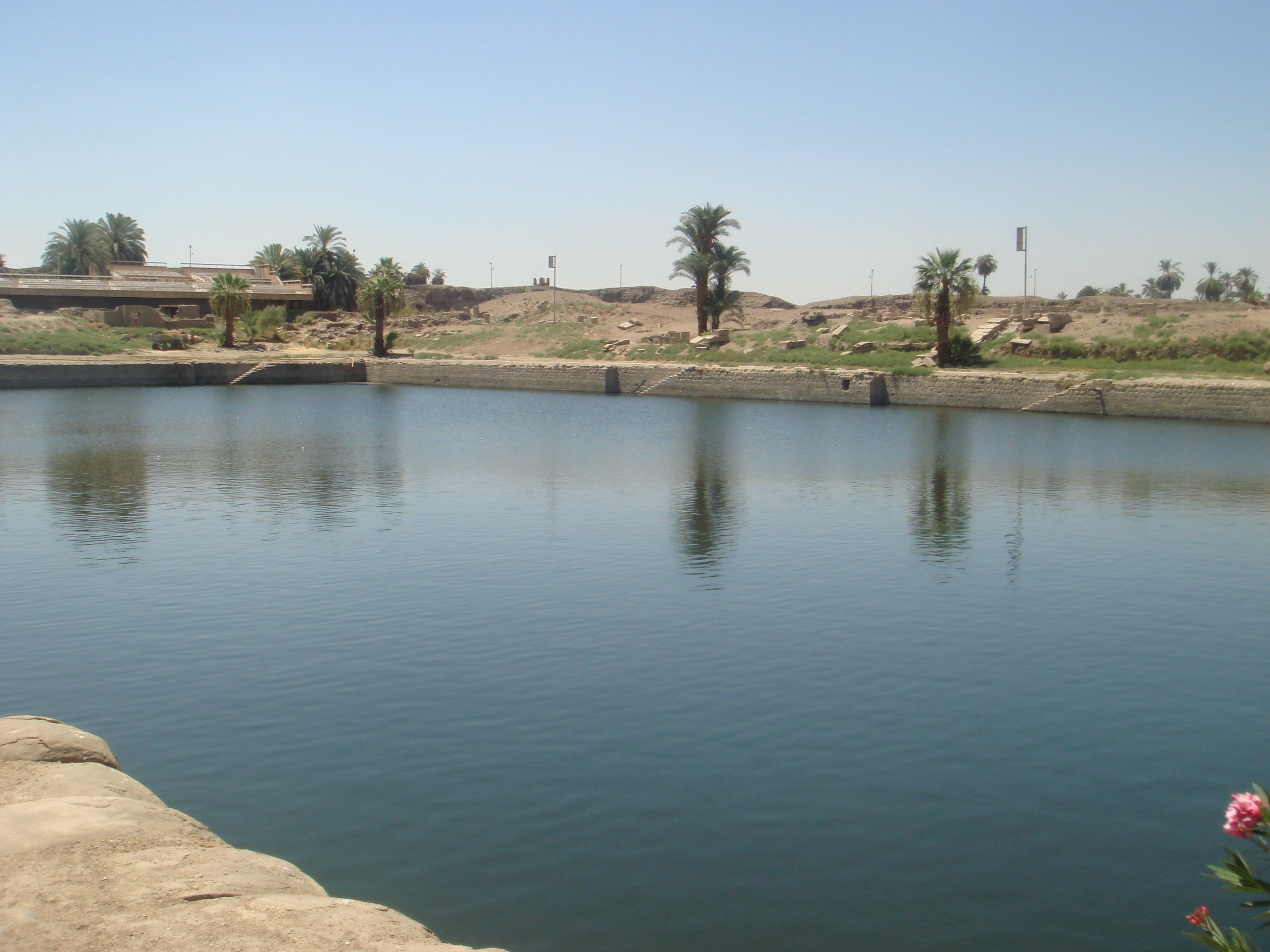 The Great Lake at the Temple of Karnak in Luxor, Egypt. On the south side, at right, are the remains of a storage building where daily offerings were prepared. (References at Digital Karnak, [1] and [2].)